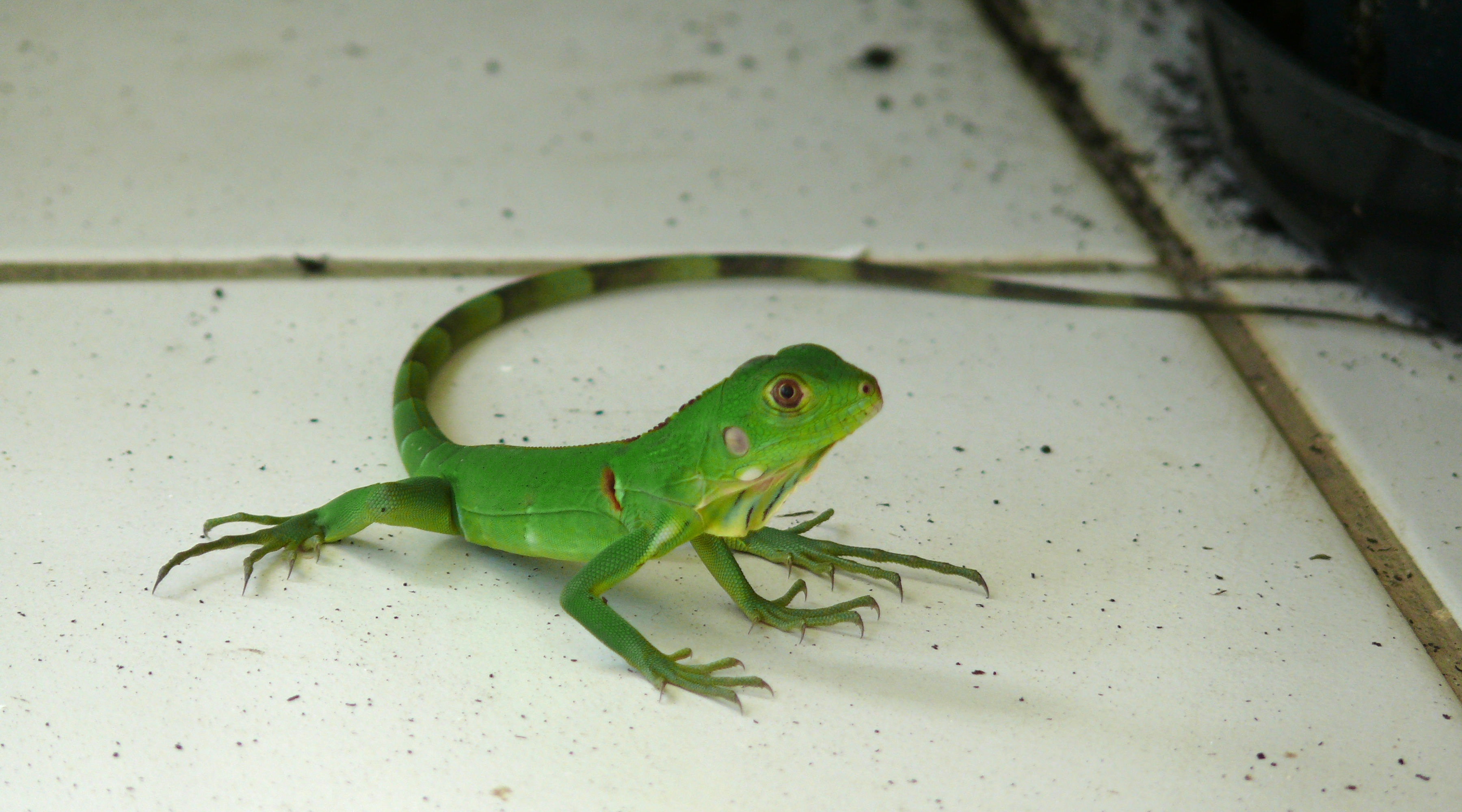 Young Iguana iguana in Kourou, French Guiana. The same one as in Image:Jeune lézard kourou.jpg.